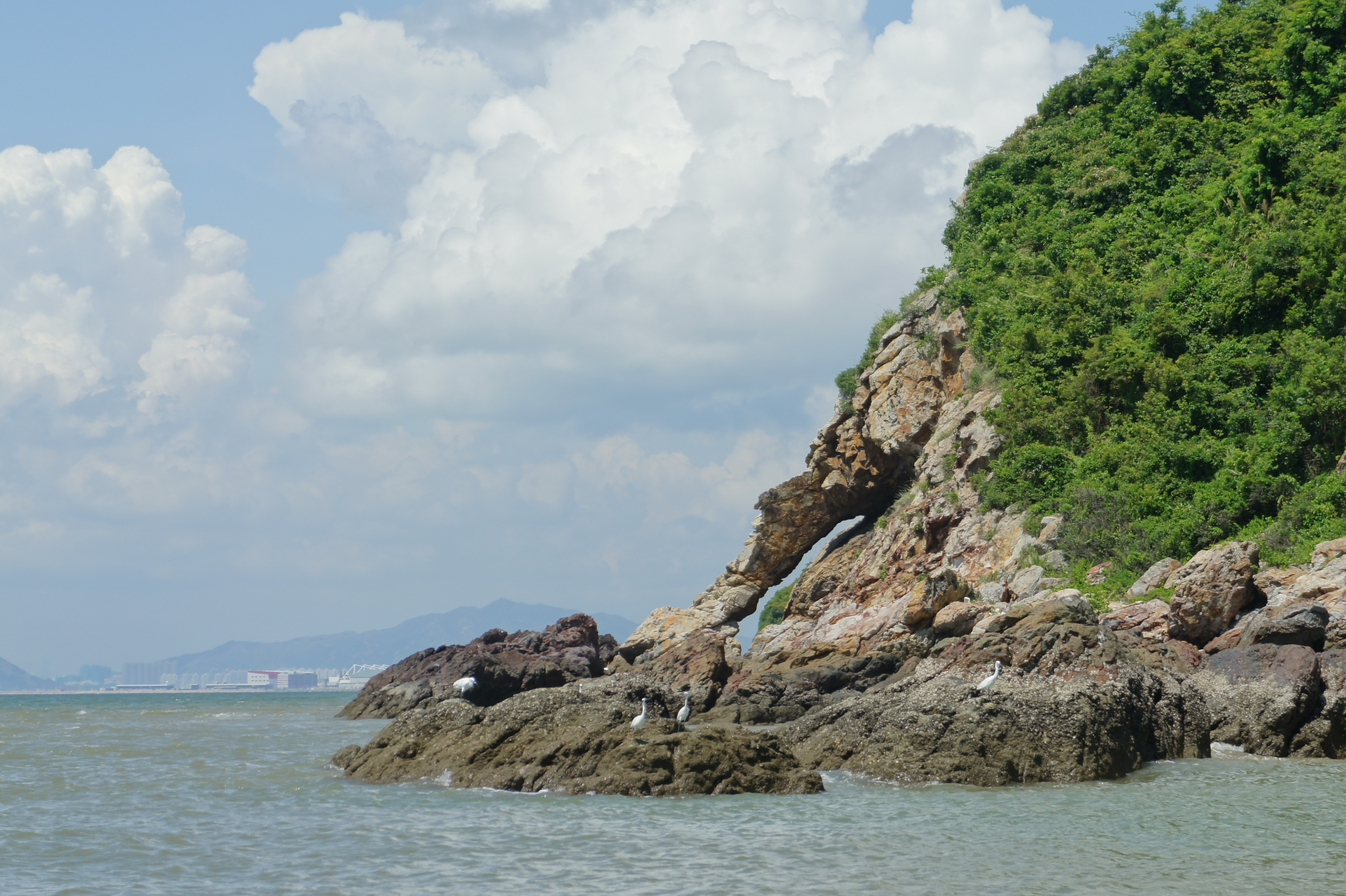 The Admiral's Rock is located at the northwestern sea cliff of Lantau's Fu Shan. It is shaped just like an admiral from the ancient time.